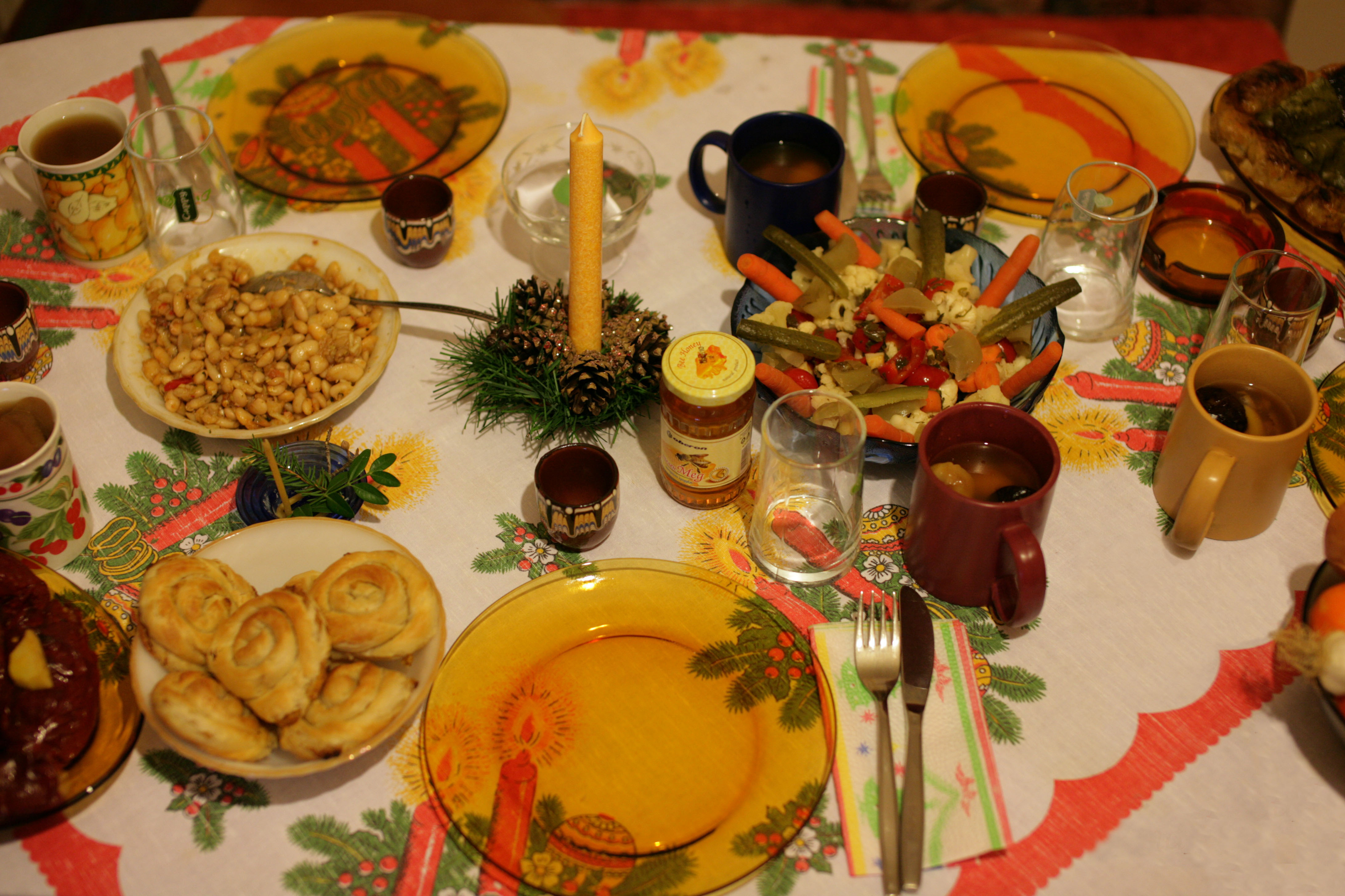 Christmas Eve in Bulgaria